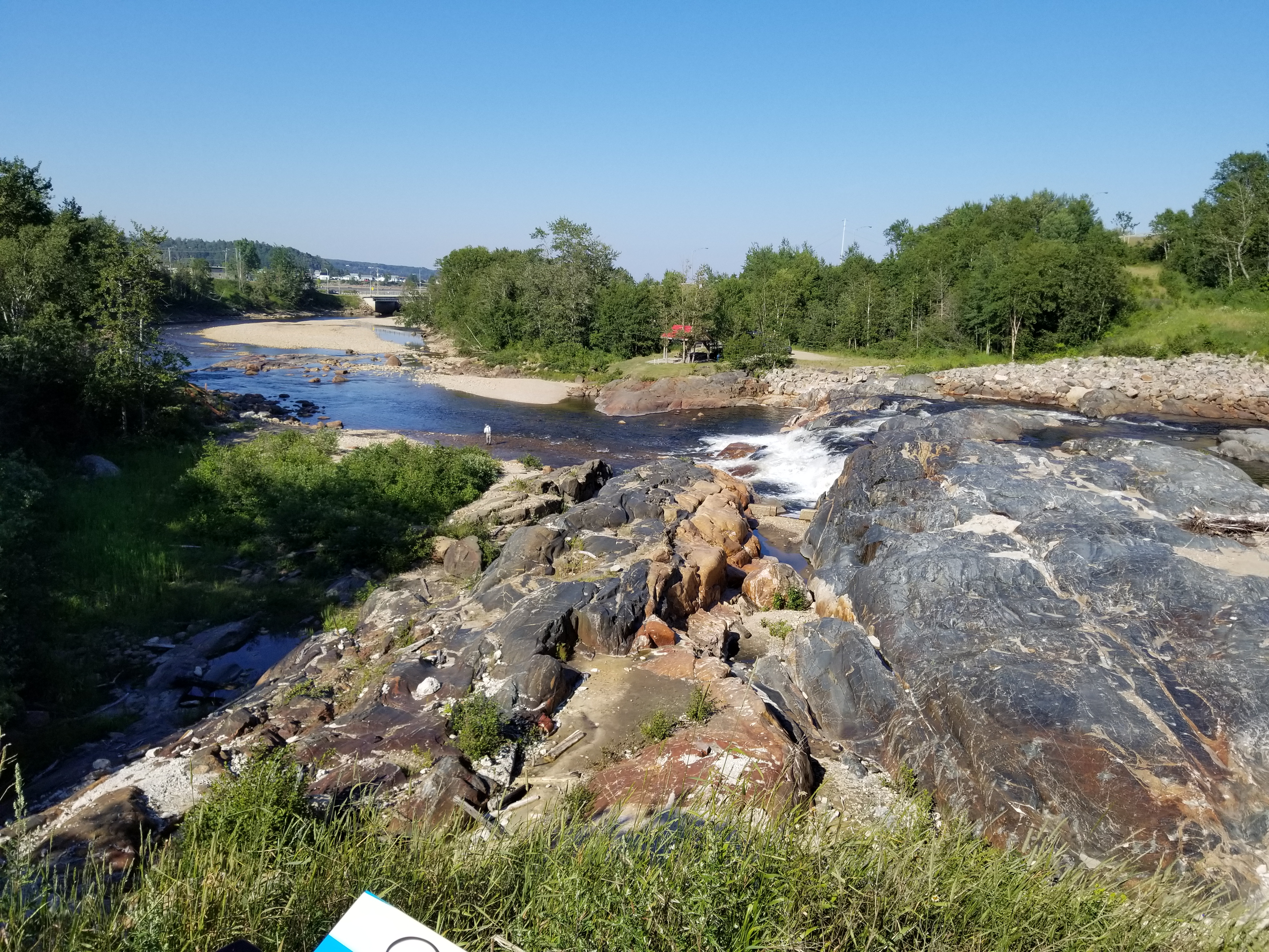 Fall of the Escoumins River, in the village of Les Escoumins.